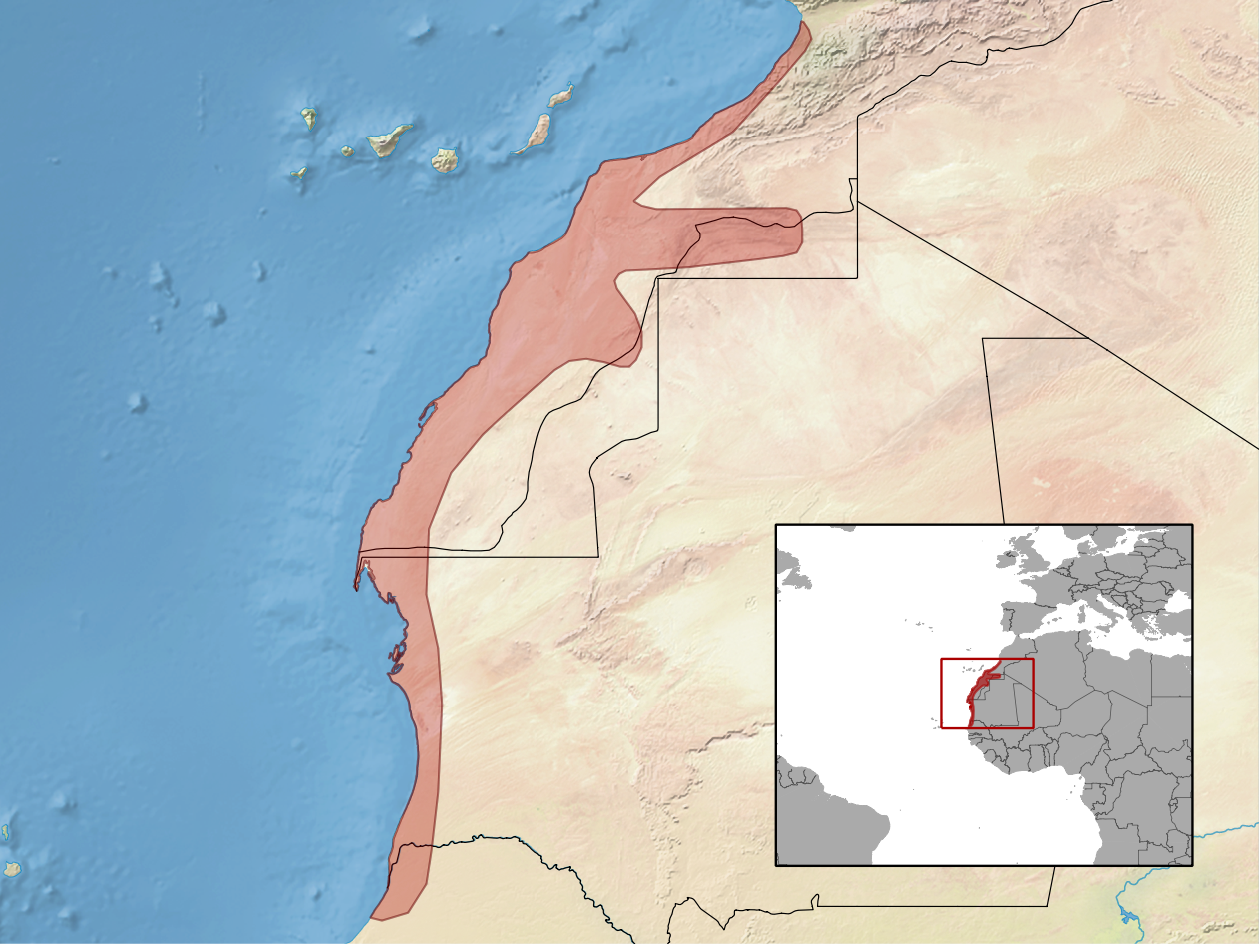 geographic distribution of Chalcides sphenopsiformis